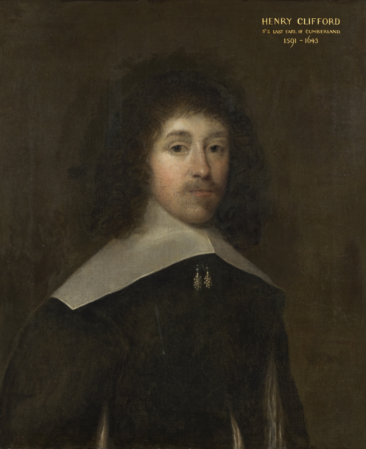 A 70 x 57 cm oil-on-canvas portrait painting of Henry Clifford, 5th Earl of Cumberland by Cornelis Janssens van Ceulen held at Abbot Hall Art Gallery